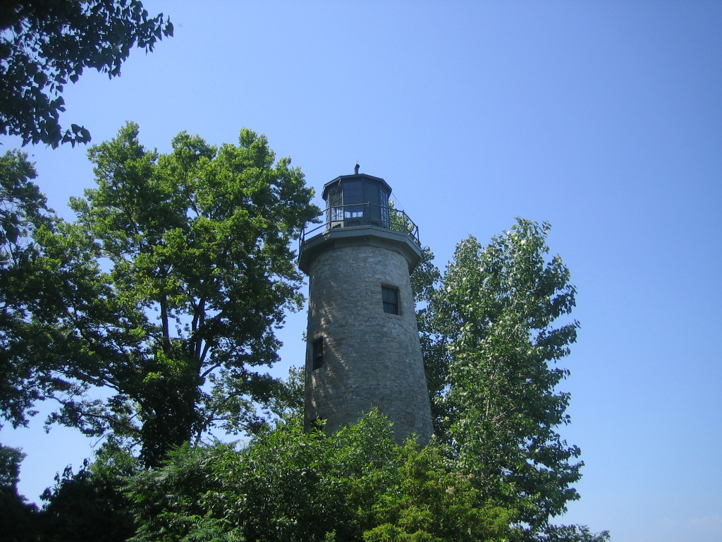 Pelee Island Light House